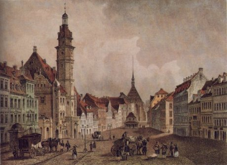 Altenburg Market around 1850